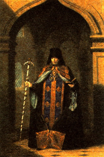 Photius Spassky